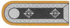 Rang insignia shoulder SS-Hauptscharführer of the SS-Totenkopfverbände until 1945, corps colour “light brown” of the Concentration camps.